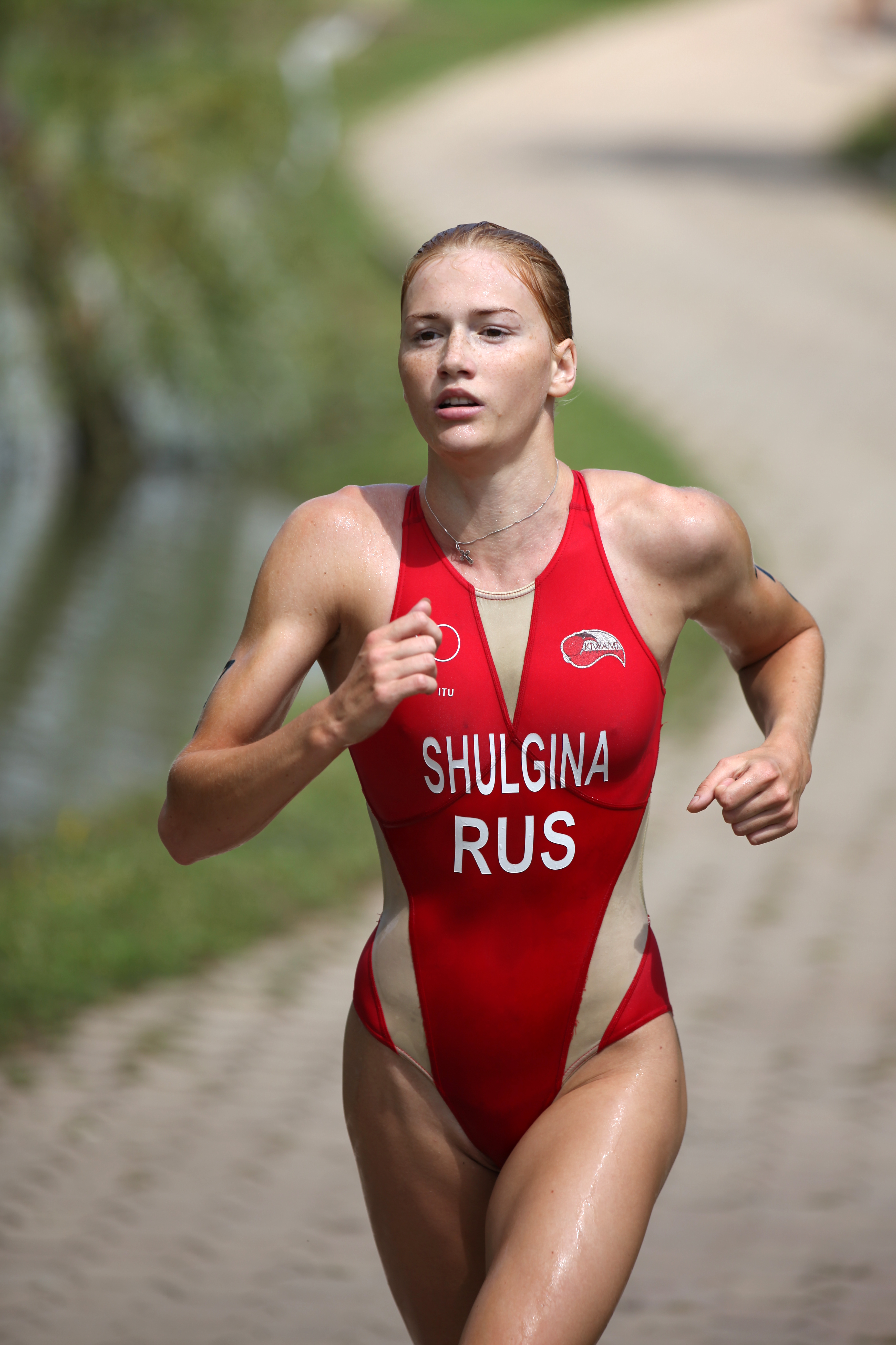 Arina Shulgina (Арина Владимировна Шульгина) at the World Cup elite triathlon in Tiszaújváros.